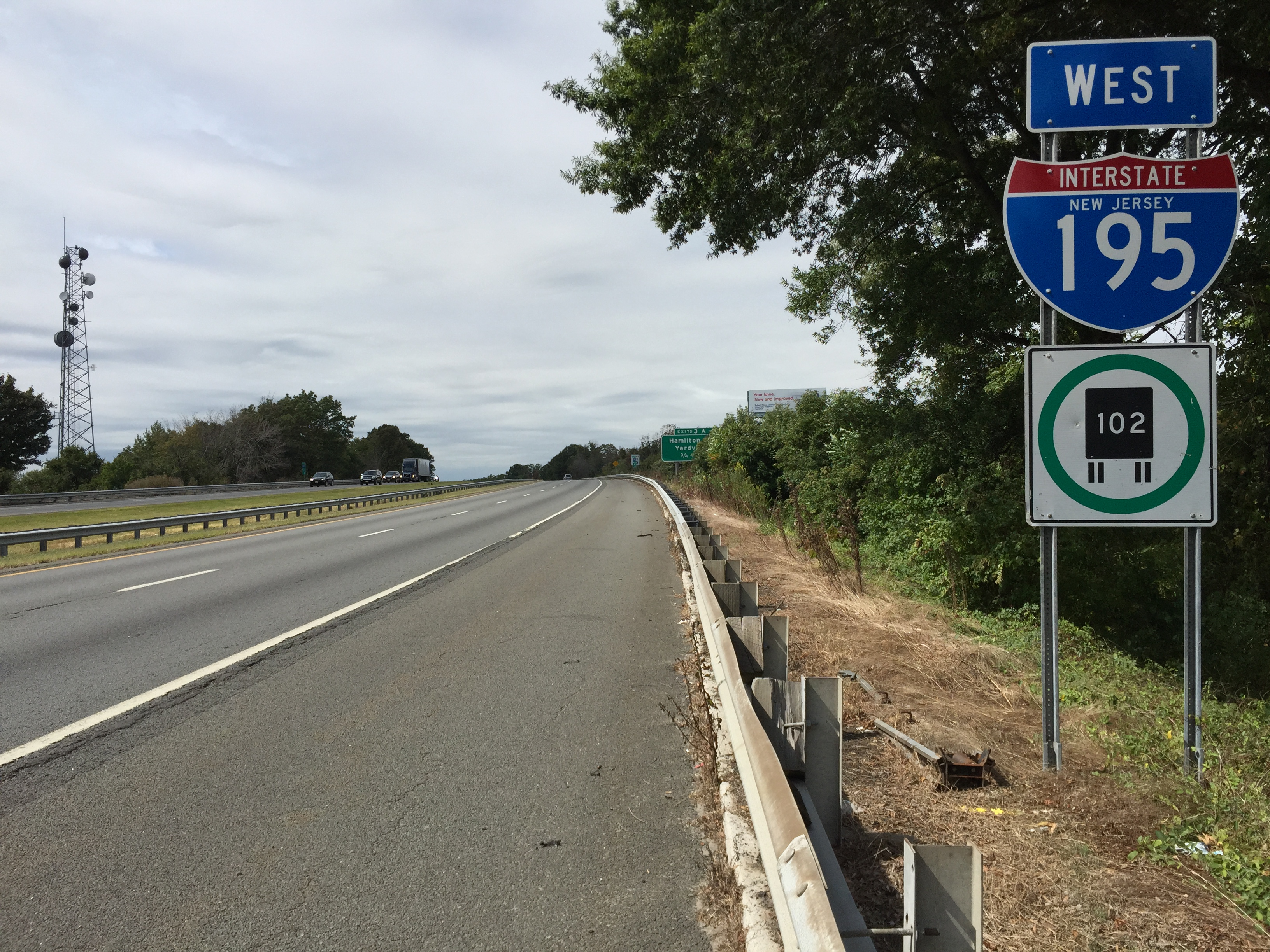 View west along Interstate 195 (Central Jersey Expressway) just west of Exit 5 (U.S. Route 130, New Brunswick, Bordentown) in Hamilton Township, Mercer County, New Jersey